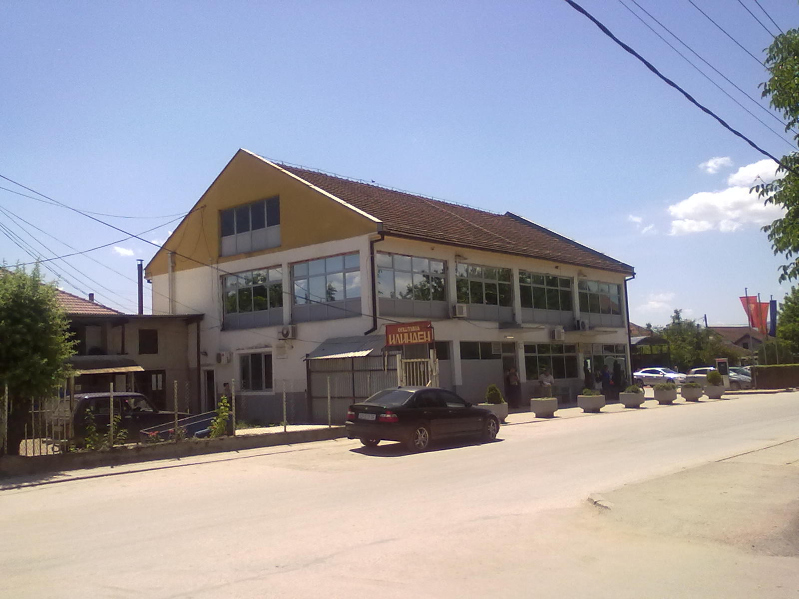 Building of Ilinden Municipality